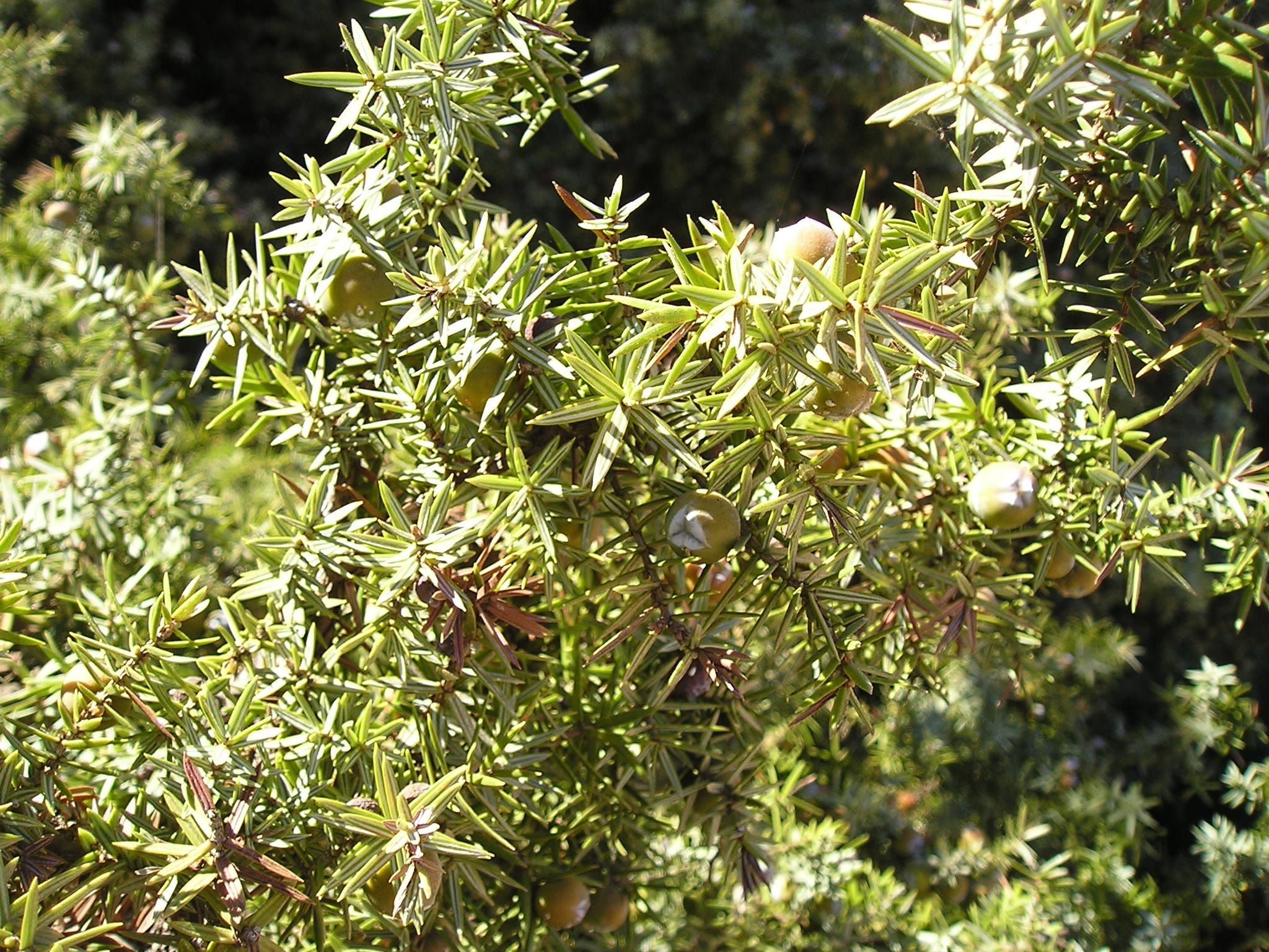 Juniperus macrocarpa, Langeri, Paros Island, Greece